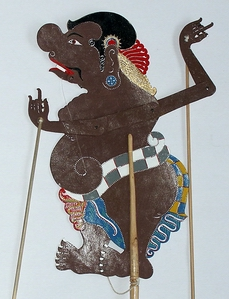 Umarmaya. Other names: Raden Umarmaya, Rakmiah, Patih Umarmaya. Wayang Kulit from Lombok.